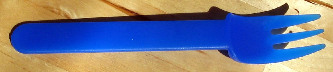 A blue plastic fork